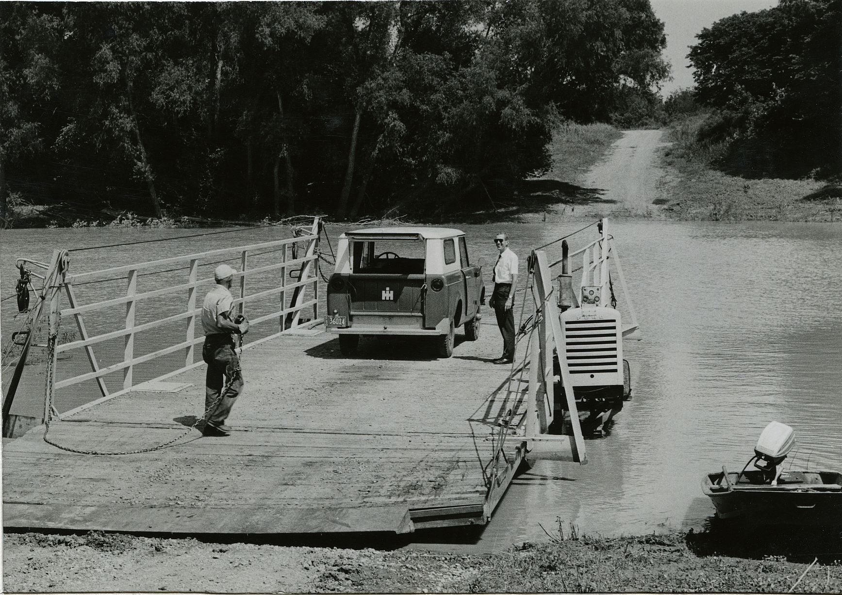 Collection: Mississippi Farm Bureau Federation Collection Call number: PI/2010.0002/Series I System ID: 107505. Link to the catalog "Sharkey County, Miss. June 1, 1965. Sunflower River Ferry is used by Ed Blake and Austin McMurchy on a field trip in the delta." View of Mr. Blake and Mr. McMurchy on the ferry. Please see our profile page for information on ordering. Scanned as TIFF in 2011/10/04 by MDAH. Credit: Courtesy of the Mississippi Department of Archives and History.